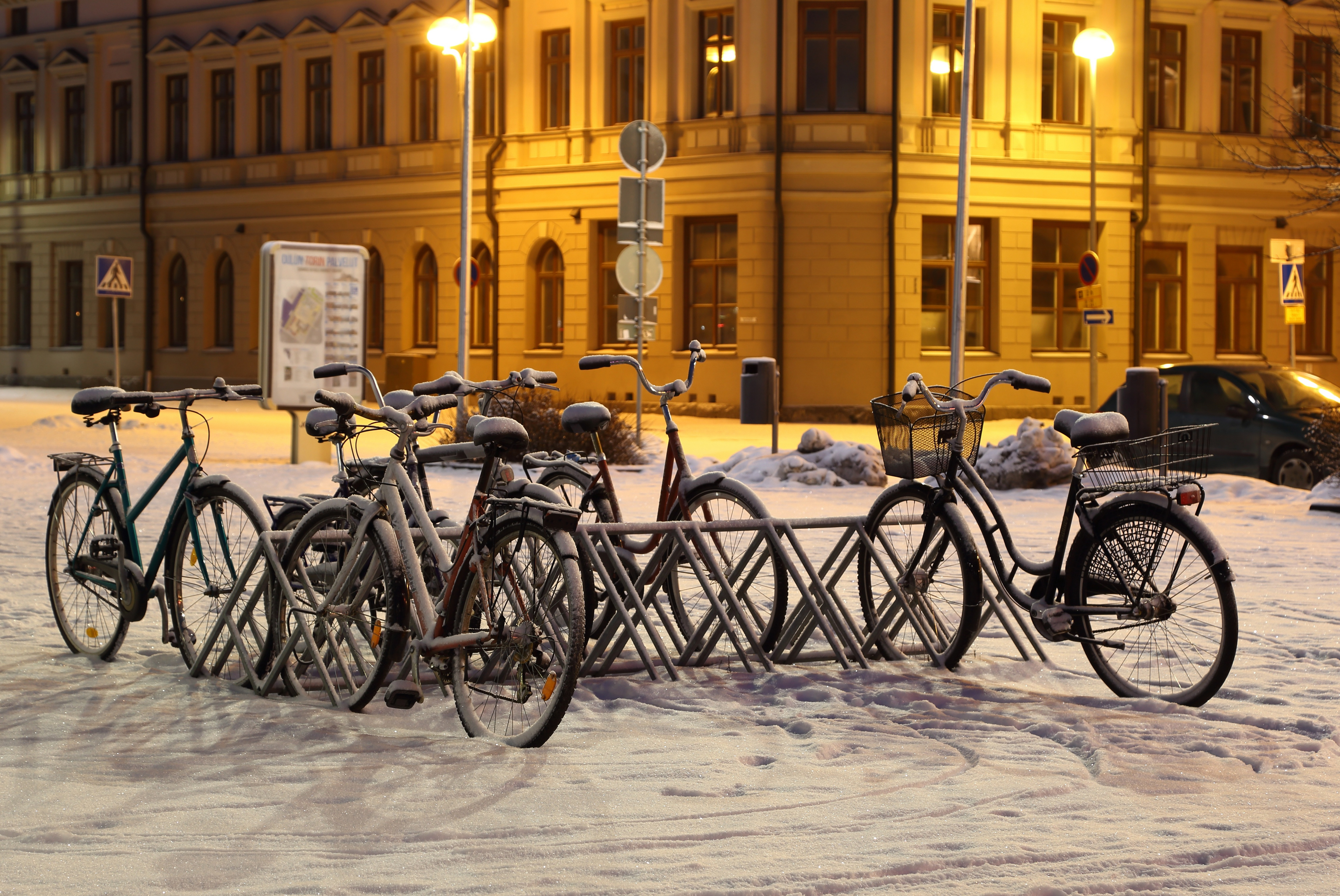 Bicycles on a rack at the Martti Ahtisaari square in Oulu.